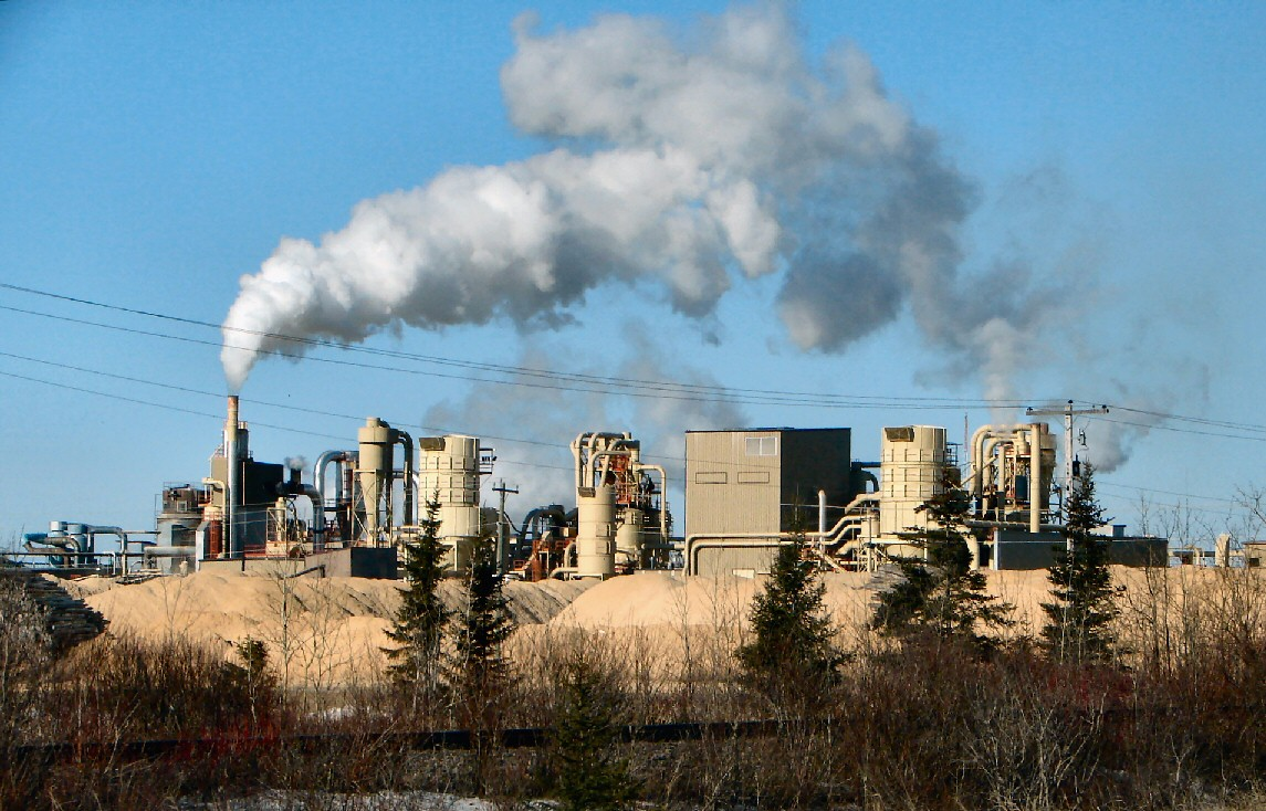 Mill in Hearst, Ontario, Canada